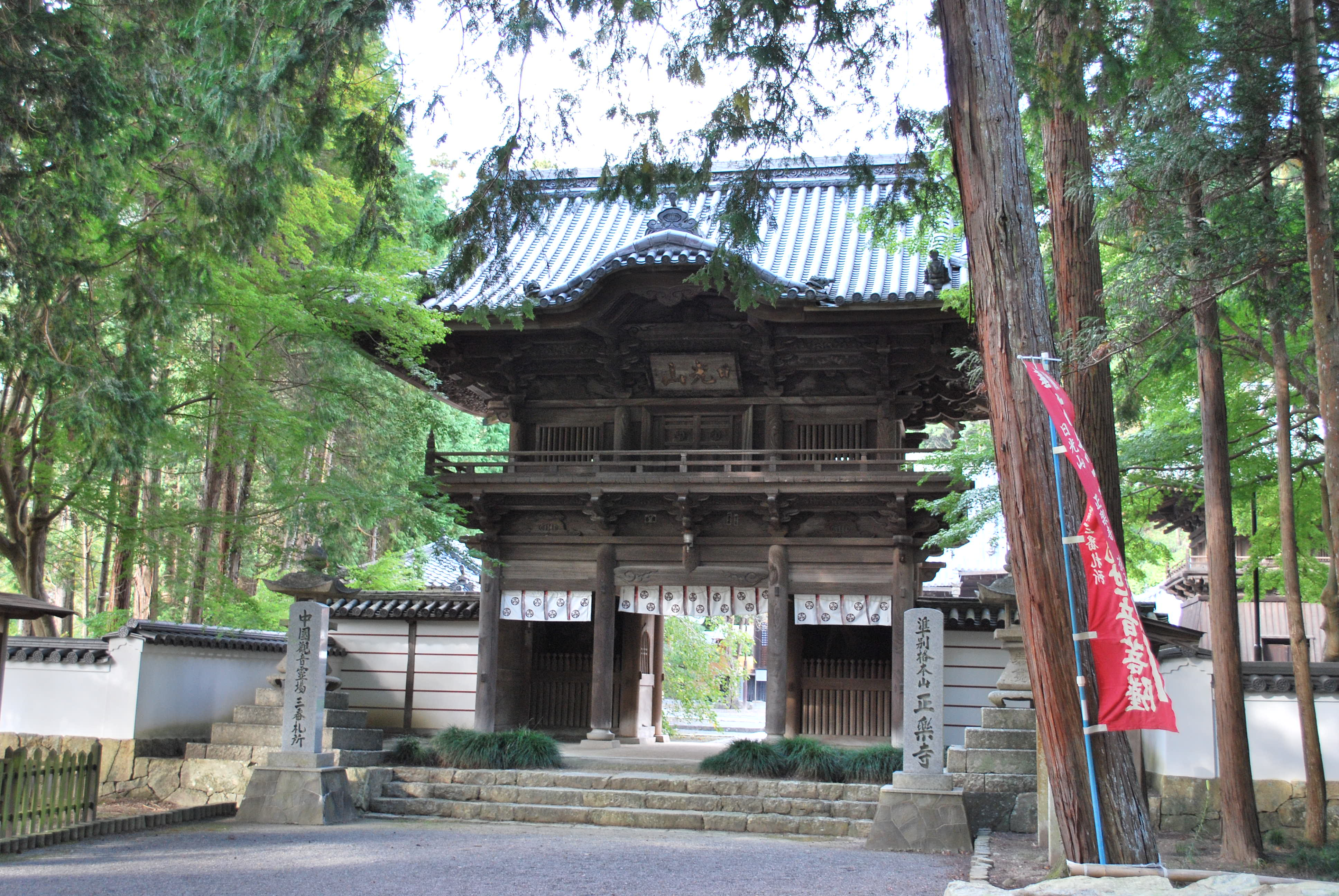 Temple gate, Shōraku-ji